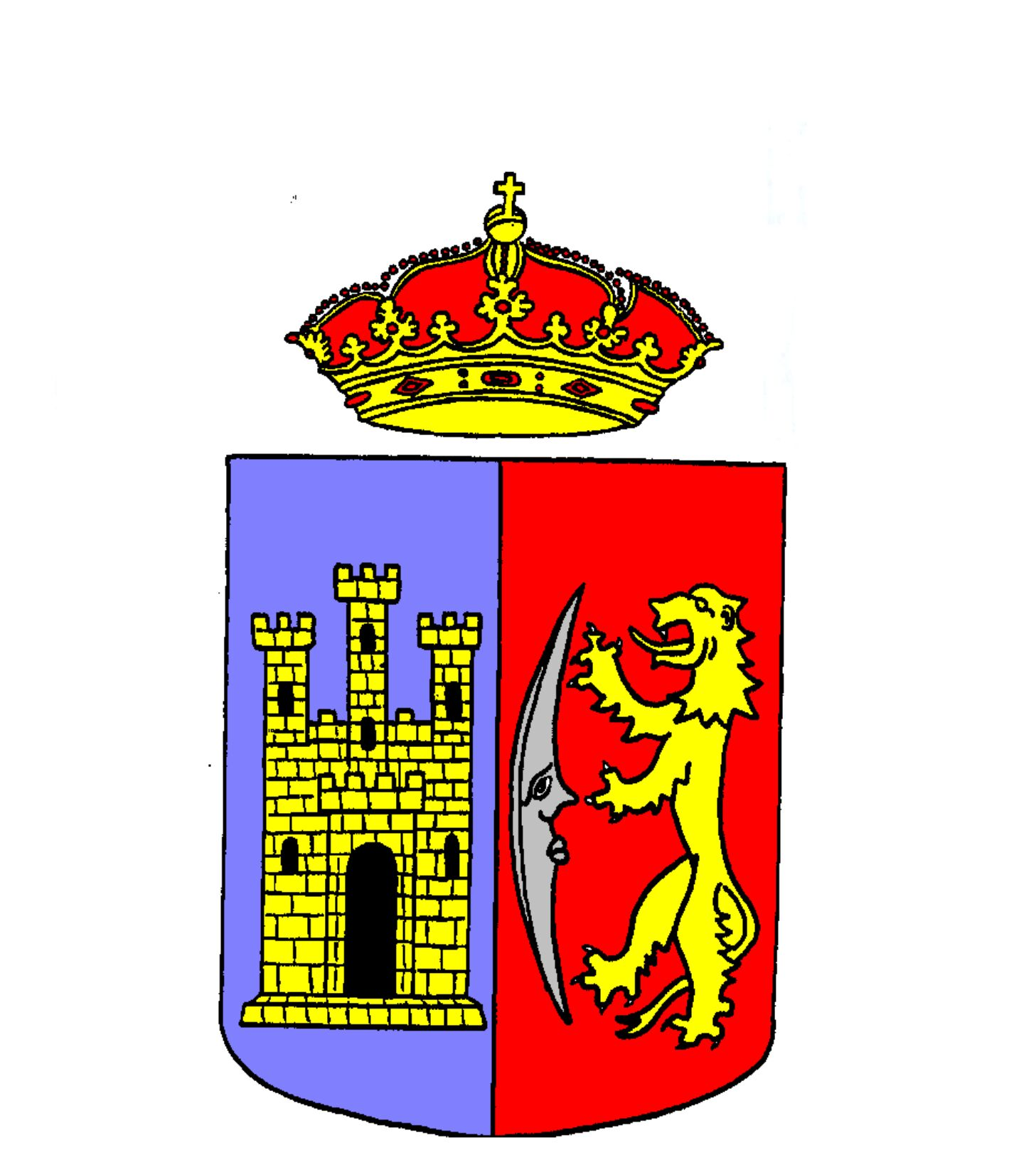 Coat of arms of Alcázar del Rey (Cuenca, Spain)